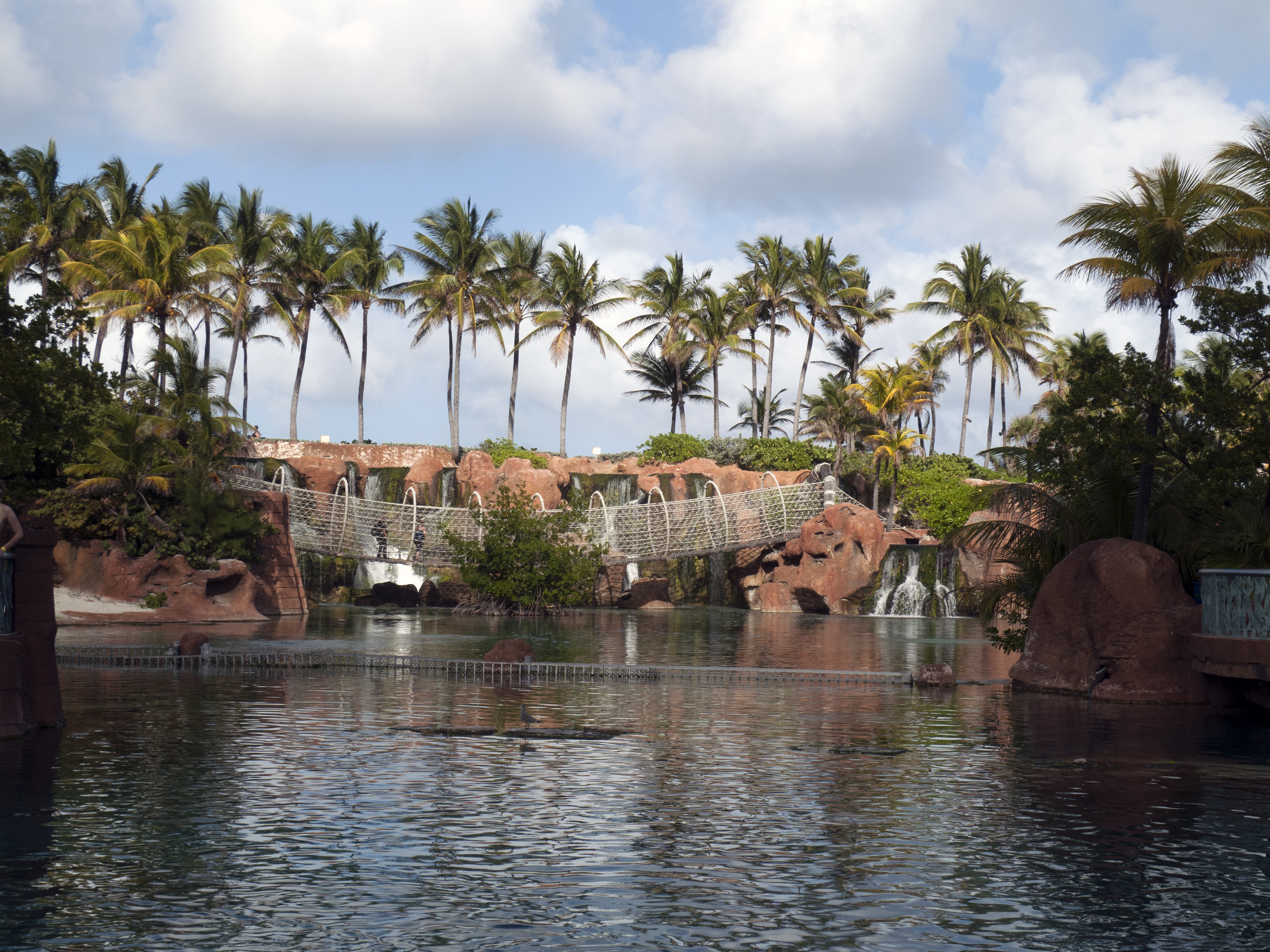 Rope bridge Atlantis Paradise Island photo D Ramey Logan